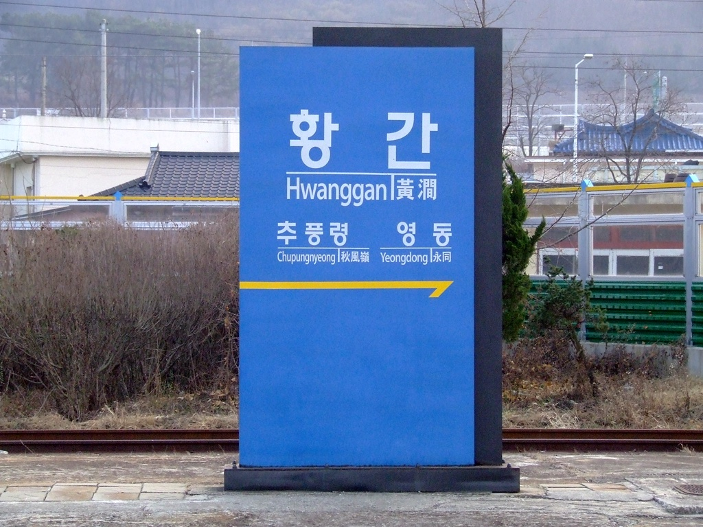 A Polsign of Gyeongbu Line, Hwanggan Station